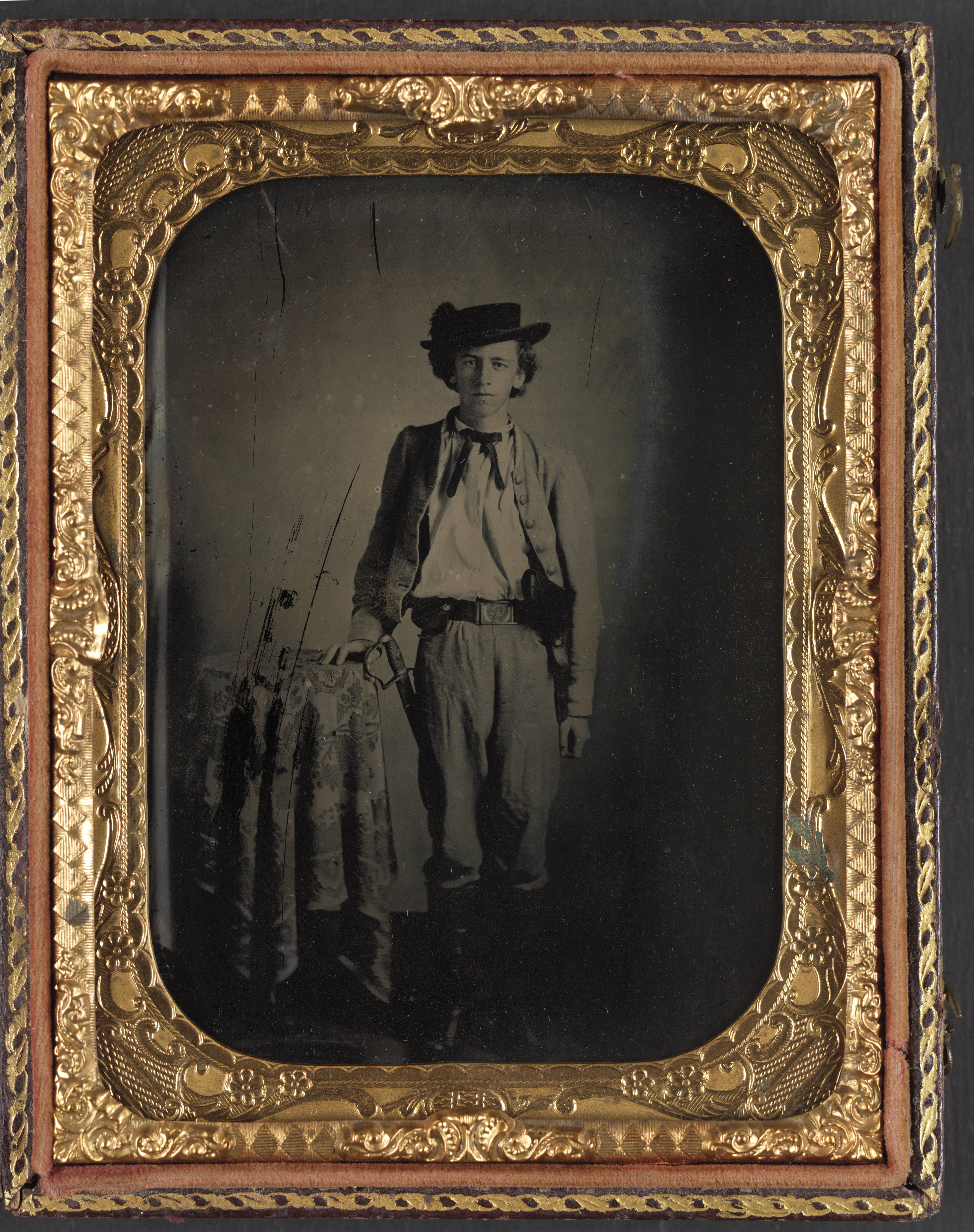 Title: Private Lucien Love of Co. D, 43rd Virginia Cavalry Battalion, in uniform with sword Abstract/medium: 1 photograph : quarter-plate ambrotype ; 11.9 x 9.3 cm (case)